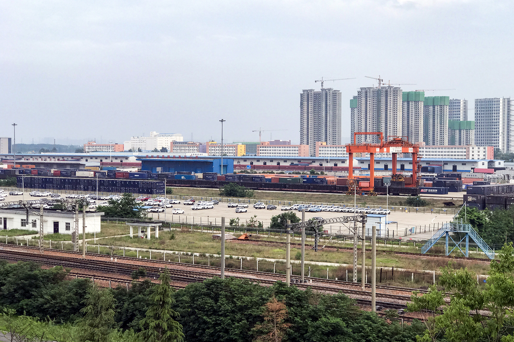 Zhengzhou Railway Container Terminal